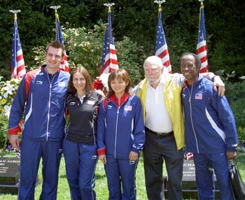 Mark Hazinski (left) with others at a China/USA Ping Pong Diplomacy Reunion.